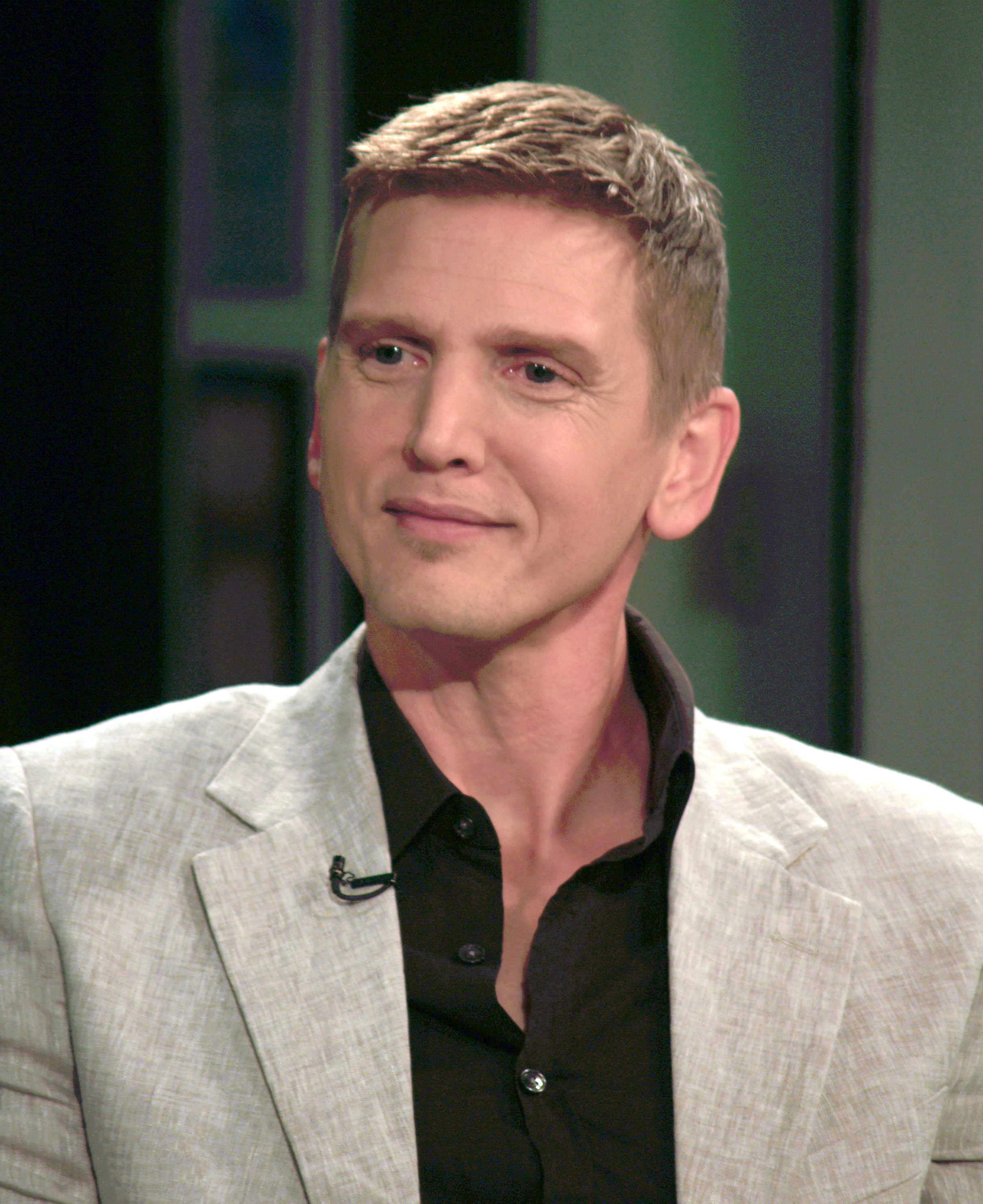 I took this photo of actor Barry Pepper while he was in San Diego promoting his newest movie Like Dandelion Dust. Please acknowledge "Phil Konstantin" as the creator of this photograph.